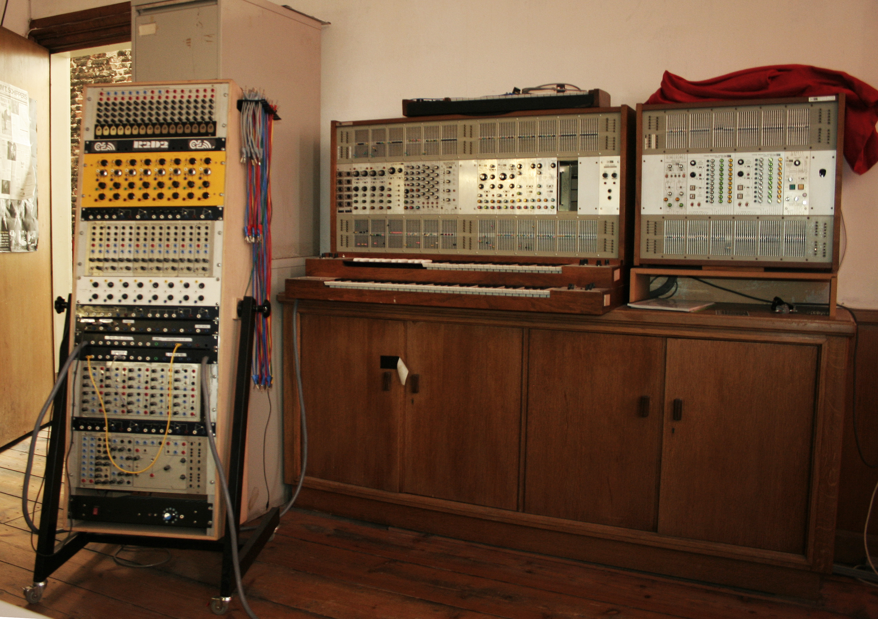 Serge modular synthesizer + ARP 2500 Modular Synthesizer. Worm Rotterdam, 24th June.